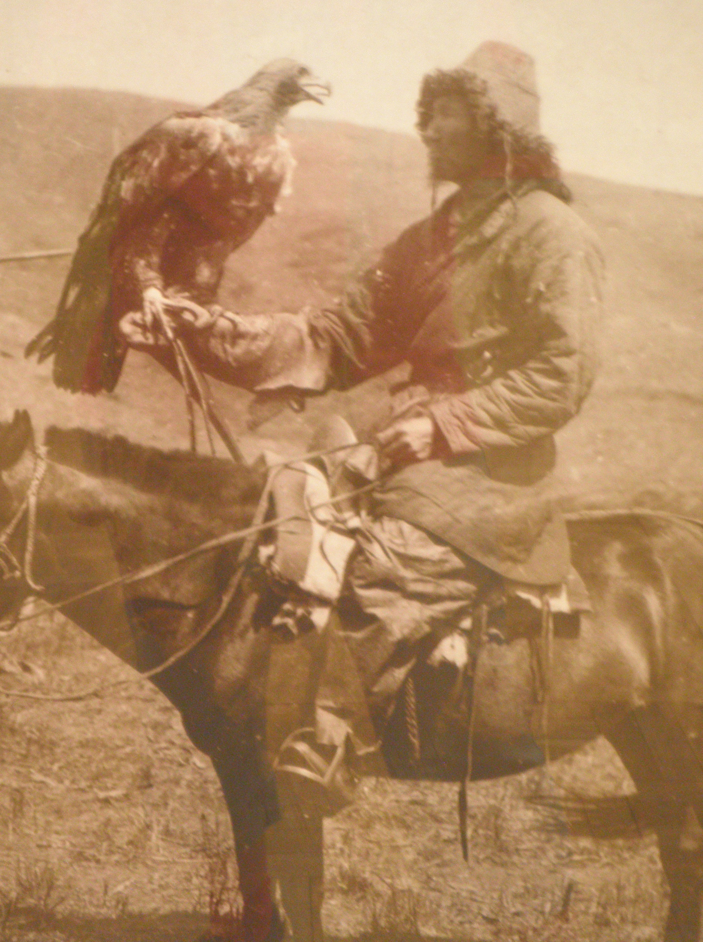 Kazakh central asian horseman. The Russian Museum of Ethnography, 1910